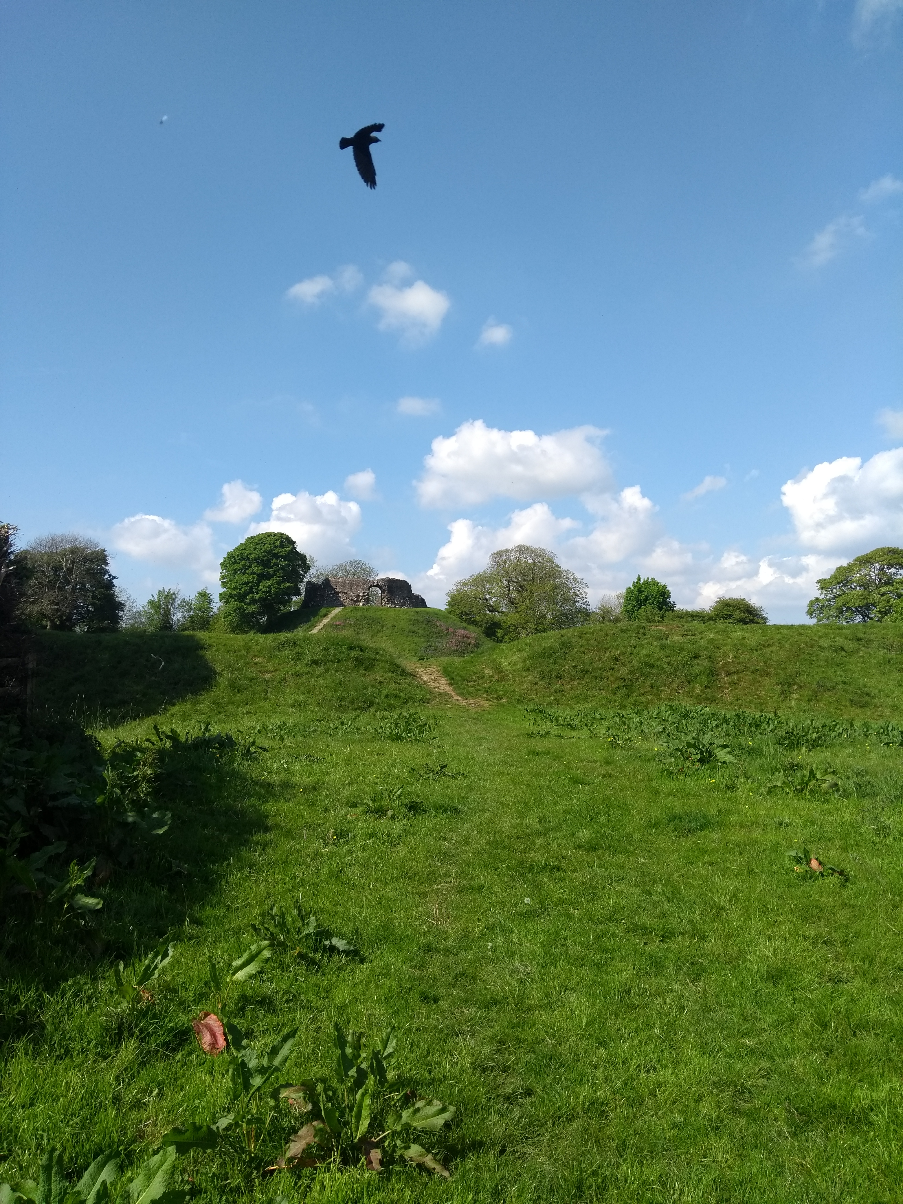 View of Wiston Castle